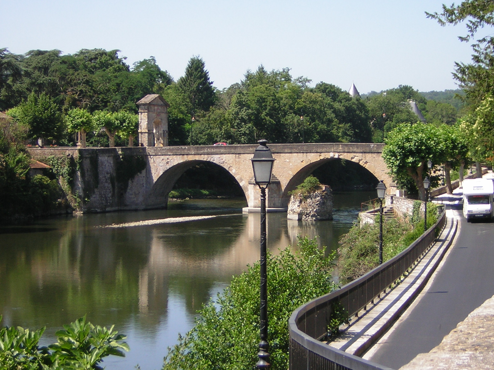 St-Martory